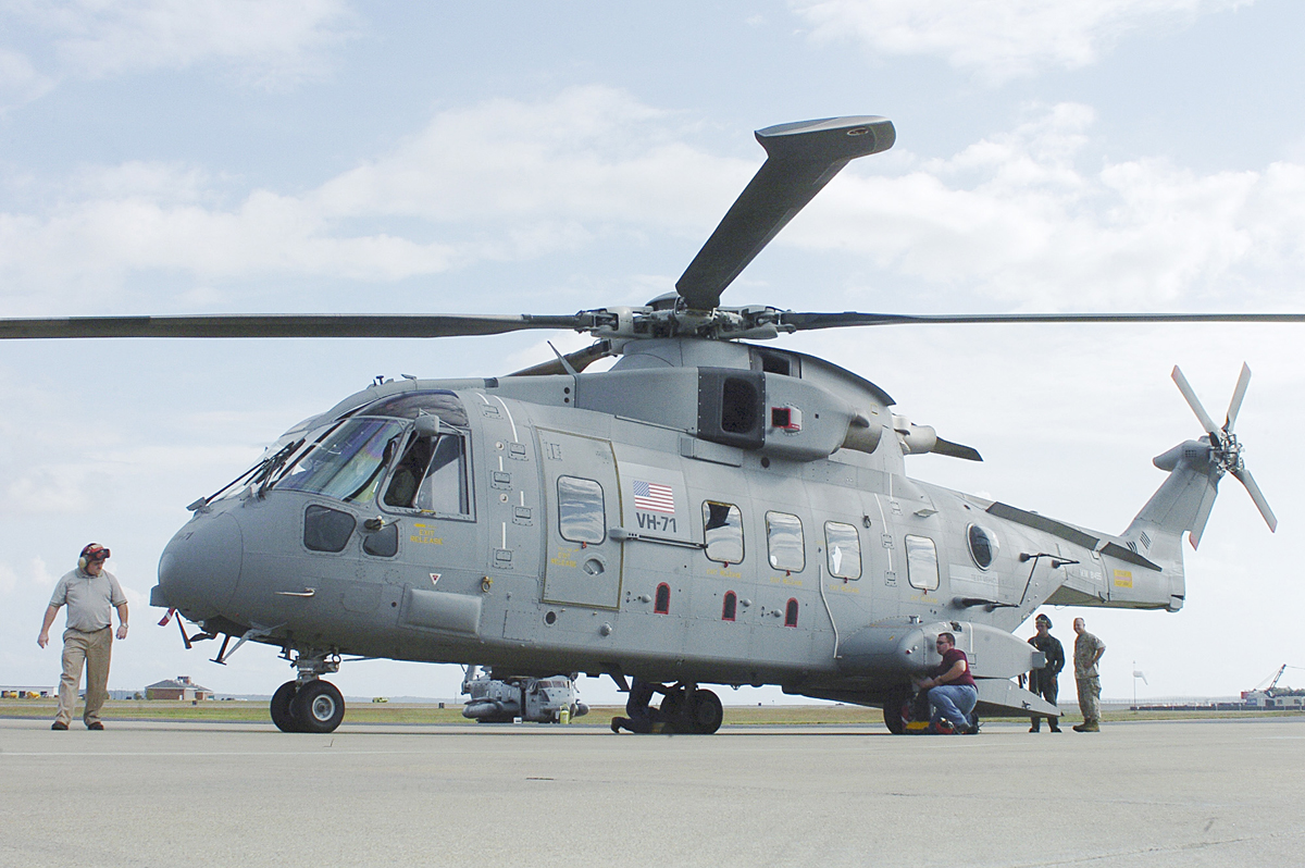 The new presidential helicopter, US-101 medium-lift executive aircraft (VH-71 test 1), landed at its future home, Marine Corps Air Facility Quantico, Oct. 6. The US-101, the product of a joint venture of Lockheed Martin, Bell Helicopter/ Textron, and Augusta/Westland, will provide a single platform to replace both the VH-3D and the VH-60N. Developmental flight-testing of the VH-71 is scheduled through fiscal year 2007.